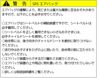 Driver air bag warning label